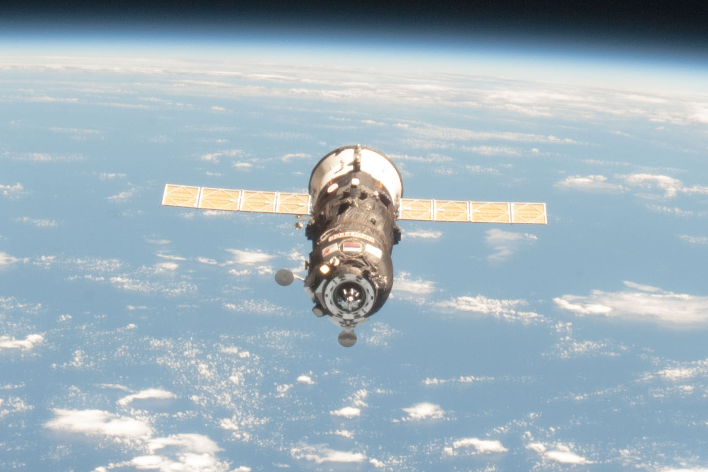 An unpiloted ISS Progress resupply vehicle approaches the International Space Station, carrying 1,764 pounds of propellant, 110 pounds of oxygen and air, 926 pounds of water and 3,000 pounds of spare parts, experiment hardware and logistics equipment -- 2.9 tons of supplies in all -- for the Expedition 34 crew members. Progress 50 docked to the station's Pirs docking compartment at 3:35 p.m. (EST) on Feb. 11, 2013. The space freighter launched from the Baikonur Cosmodrome in Kazakhstan at 9:41 a.m. (8:41 p.m. Kazakhstan time) on an accelerated, four-orbit journey to rendezvous with the station.